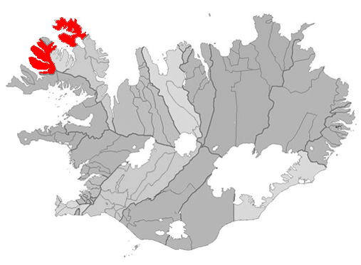 Based on Municipalities of Iceland.png.